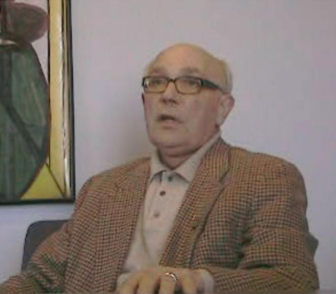 A still frame from a video of former Minneapolis mayor Albert J. Hofstede, when we interviewed him.